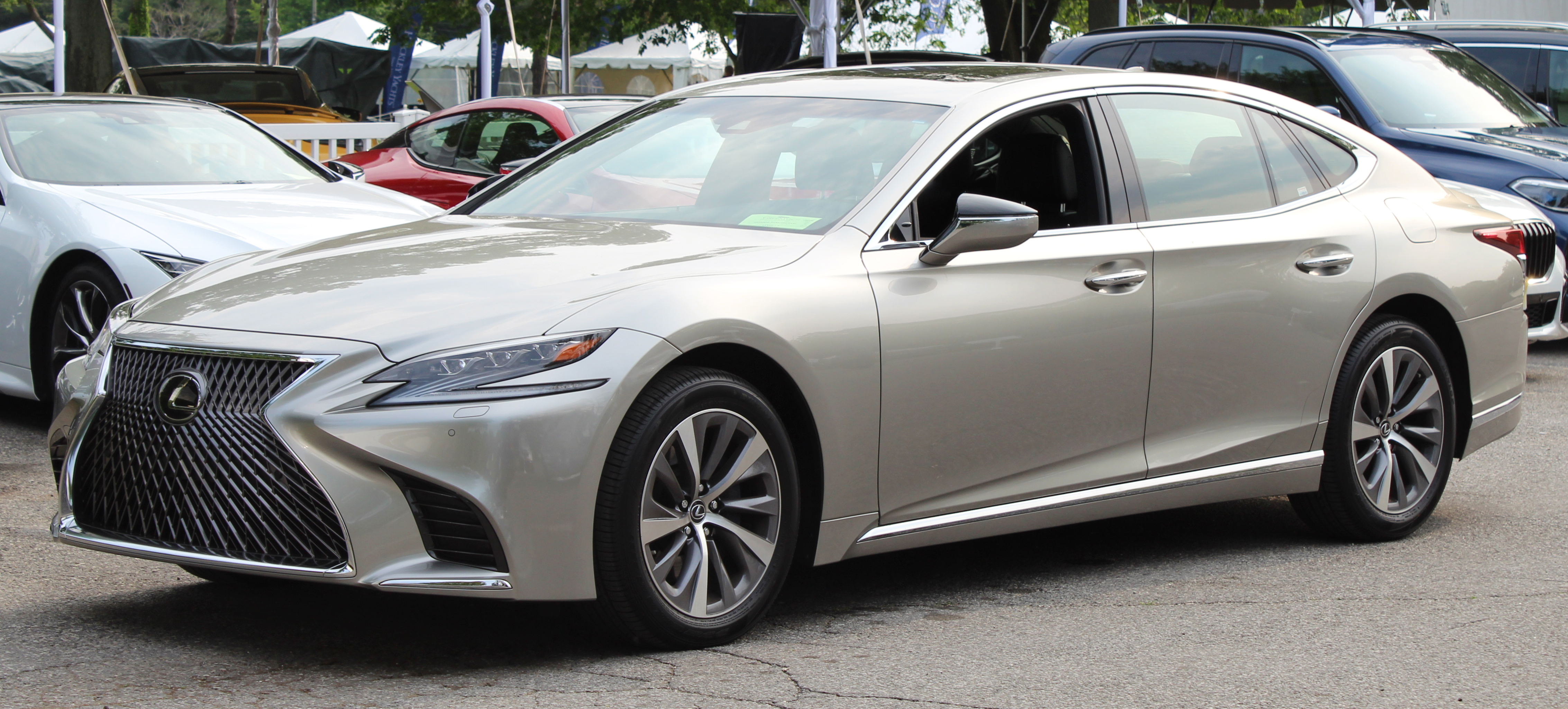 A 2019 Lexus LS 500 test driving photographed in Greenwich Concours d'Elégance Hagerty parking lot, Connecticut, USA